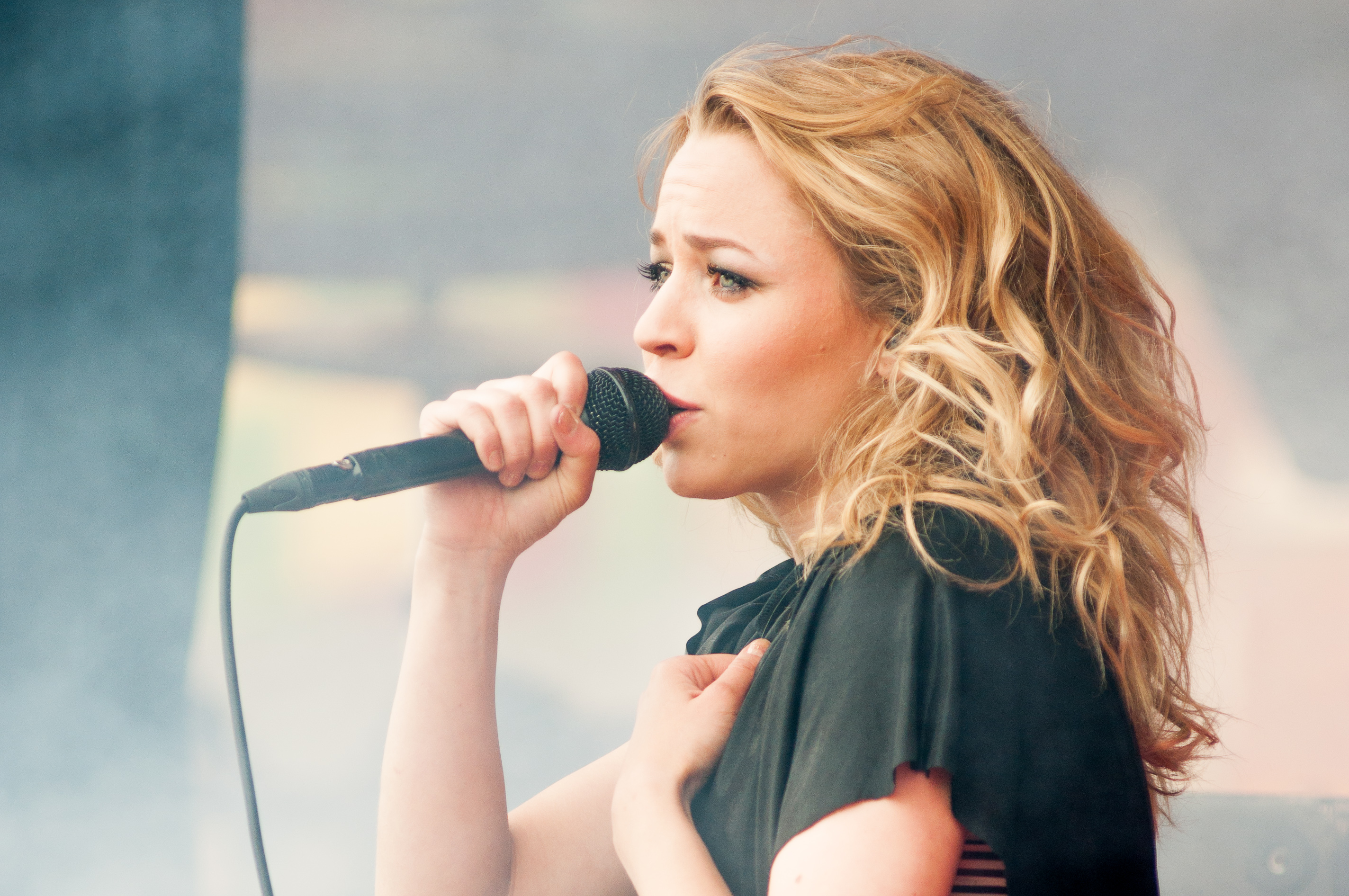 Finnish vocalist Paula Vesala of PMMP performing at the 2012 Ilosaarirock festival in Joensuu, Finland.